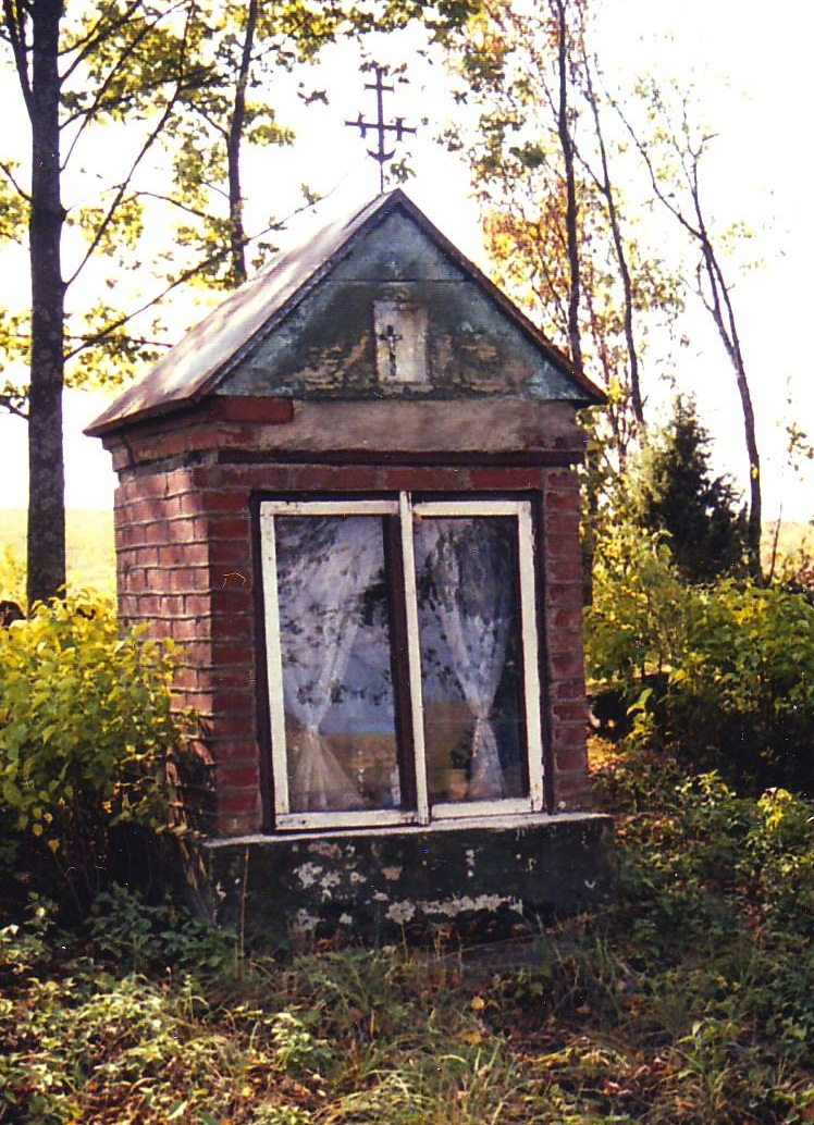 Kulaliai capel, Skuodas district, Lithuania